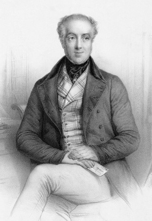 Sir James Graham, 2nd baronet. British Politician, First lord of the Admiralty 1830-34 and 1853-55.